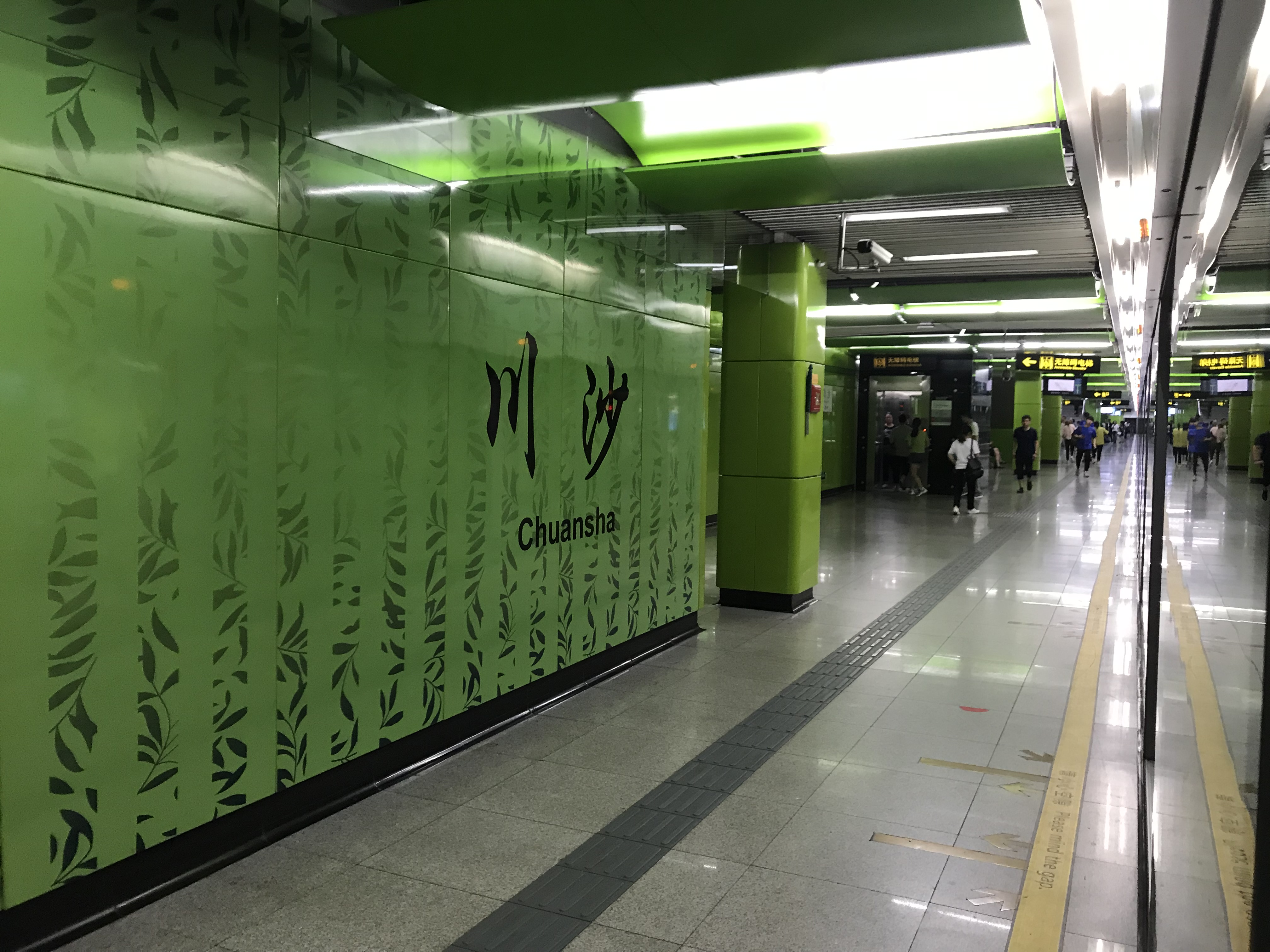 201908 Nameboard of Chuansha Station